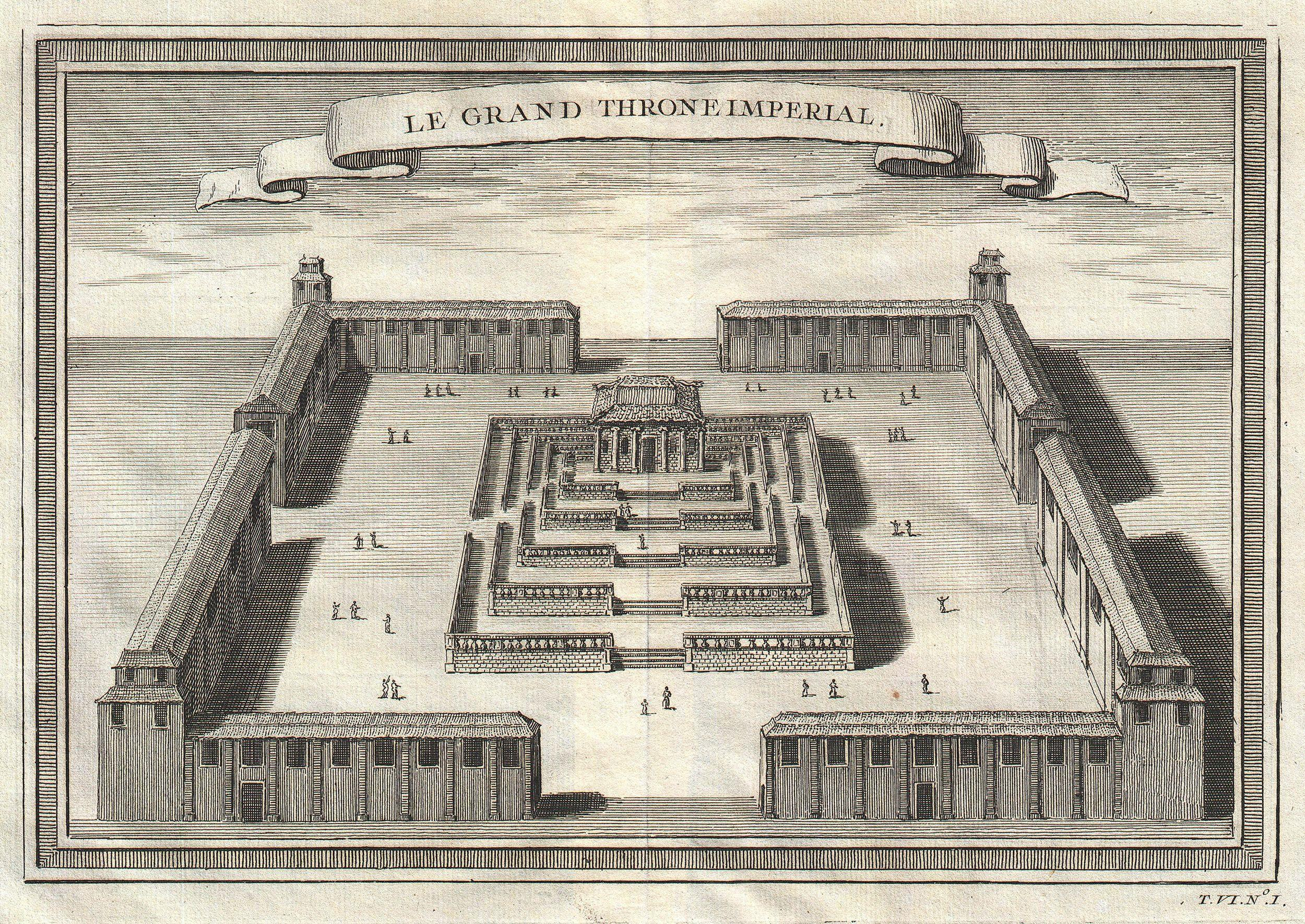 This is a rare 1756 view of the Grand Throne Room of the Imperial Forbidden City, Beijing China. The Grand Throne Imperial is beautifully rendered complete with tiny court functionaries scurrying about. Prepared by N. Bellin for issue in the 1757 edition of A. Provost’s L`Histoire Generale des Voyages .